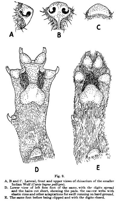 Feet and nose of a wolf.